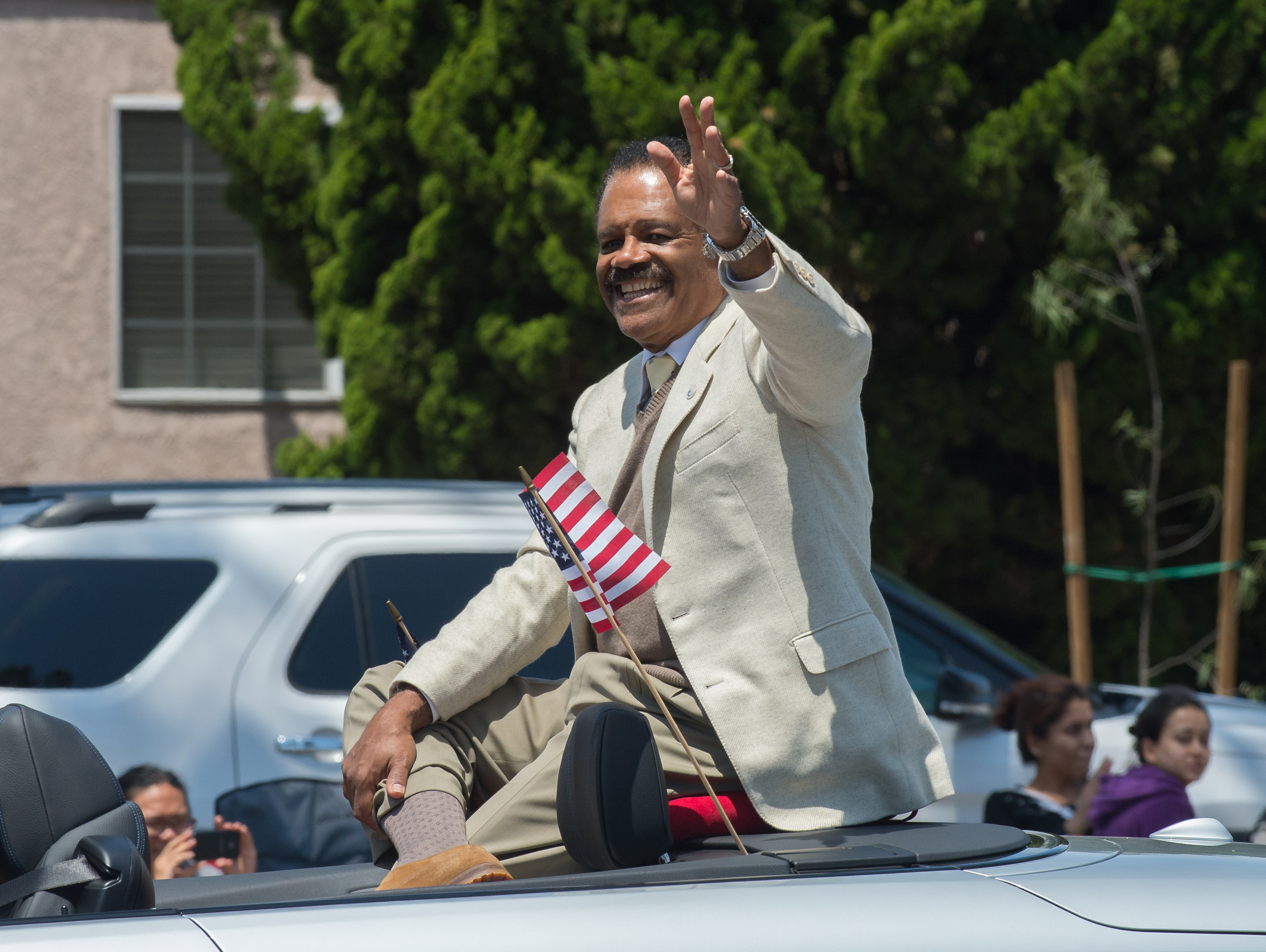 Ted Lange